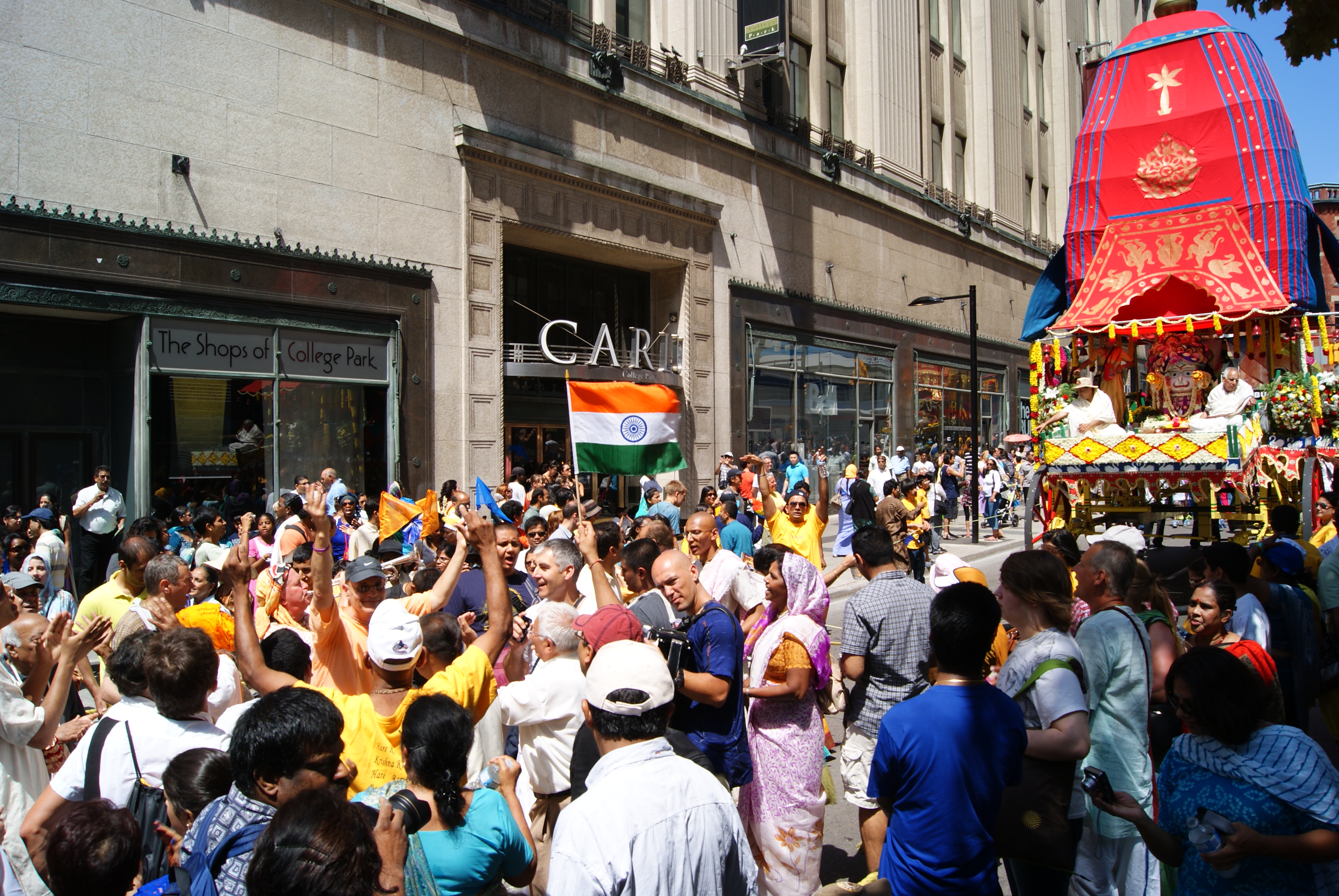 Rath Yatra on Yonge Street, Toronto, July 2011